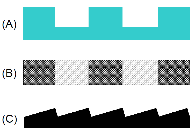 For explanation of diffraction grating.